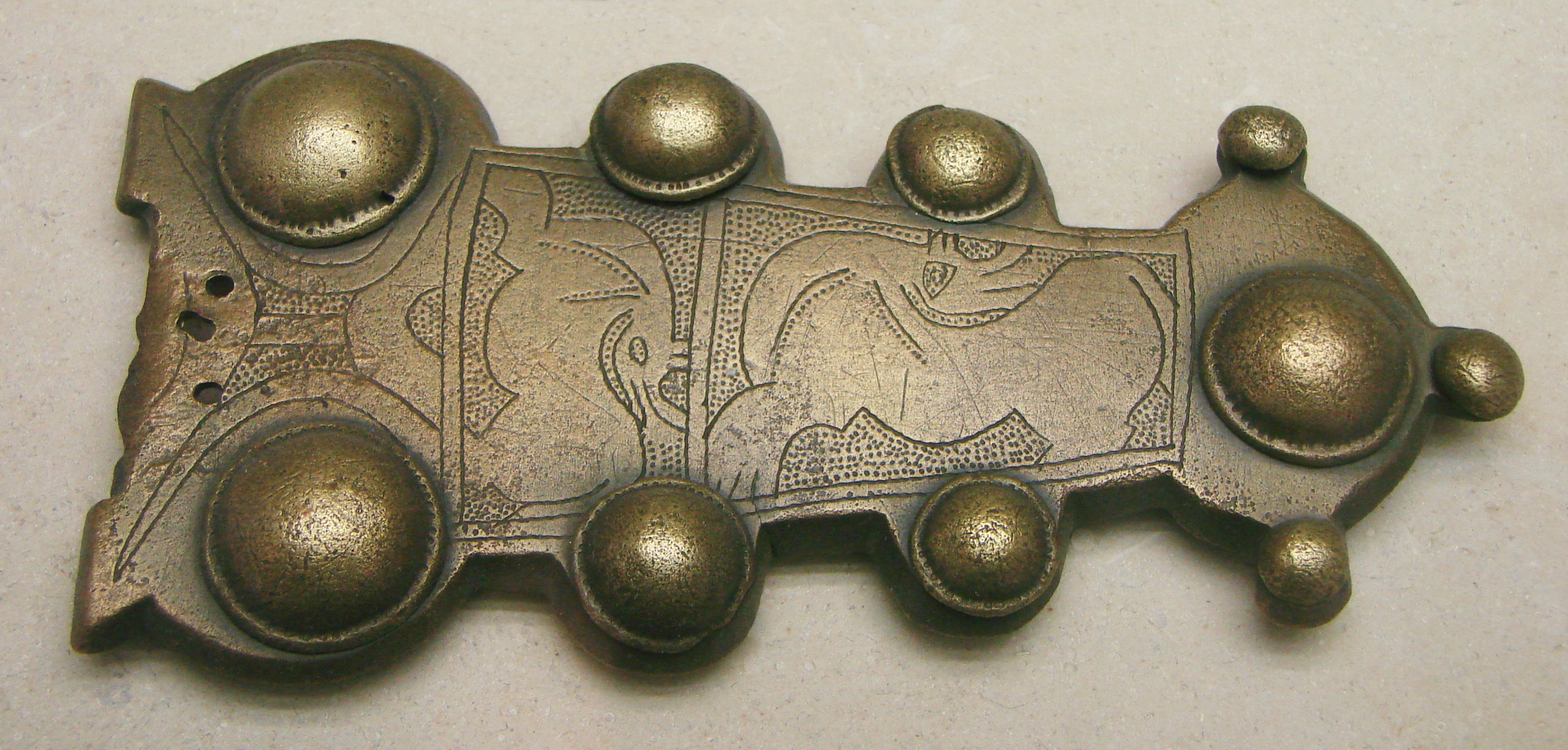 Belt buckle, aquitanian type, 7th century; St Remi museum, Reims, France.